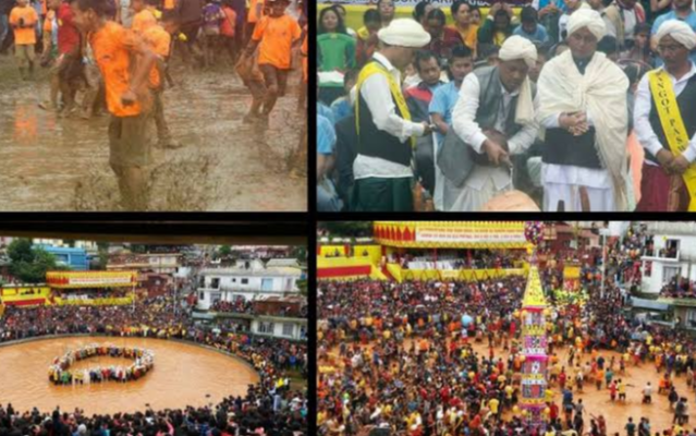 Behdienkhlam is festival celebrated by Hindus and Niamatres in Jowai, Meghalaya